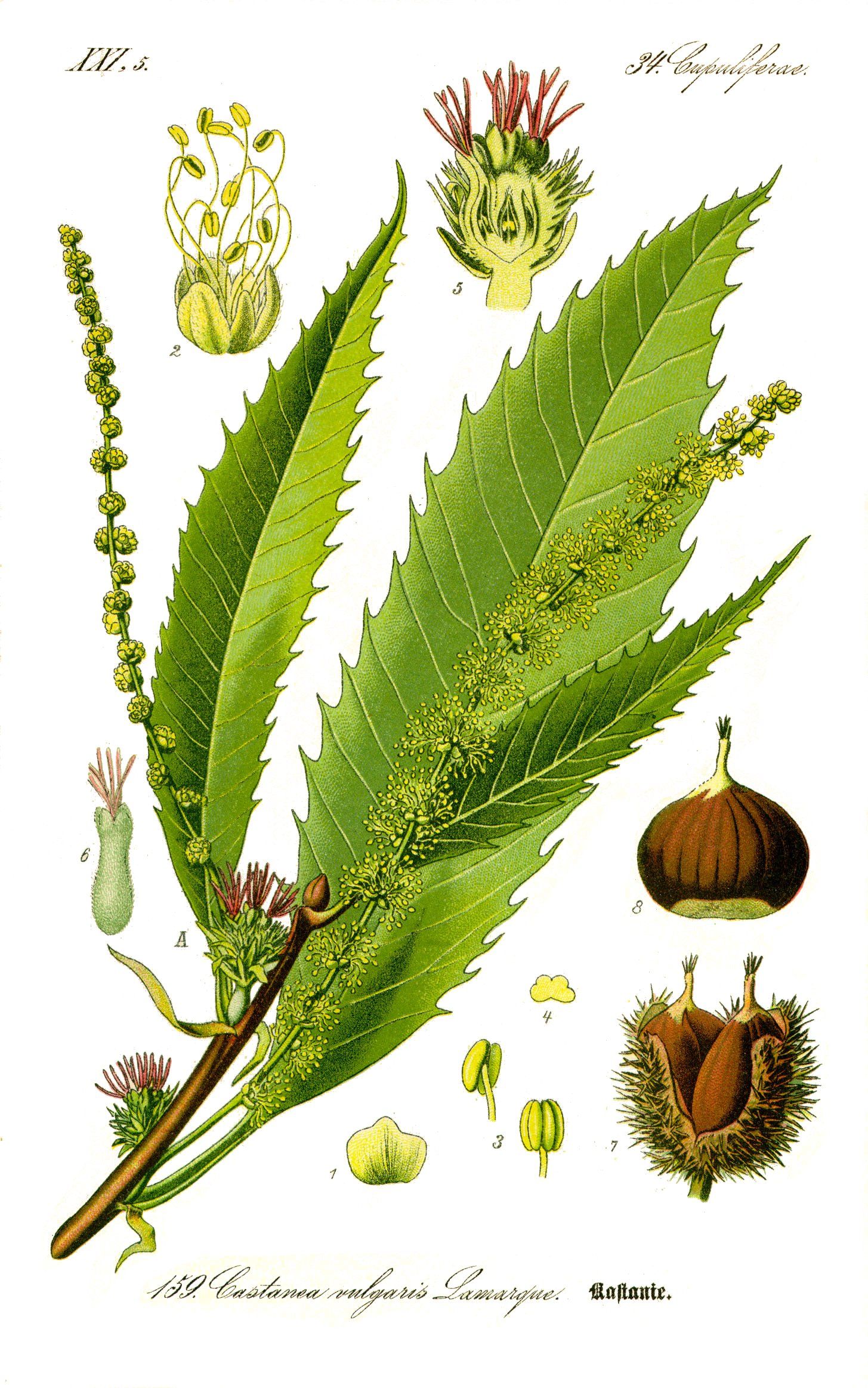 Castanea sativa, Clean version of Image:Illustration_Castanea_sativa0.jpg